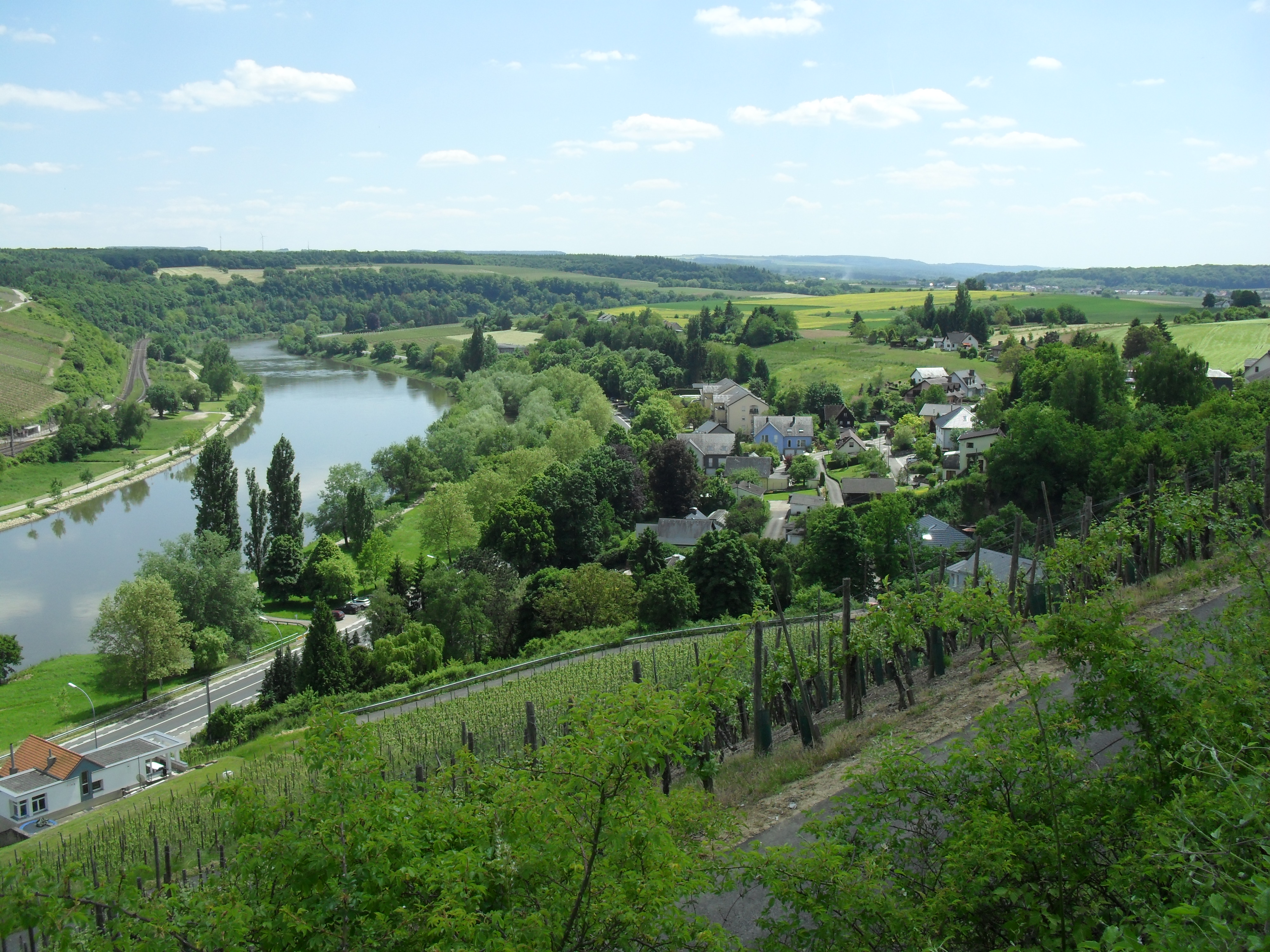 The village of Hëttermillen near the Moselle river in Luxembourg, Municipality of Stadtbredimus.